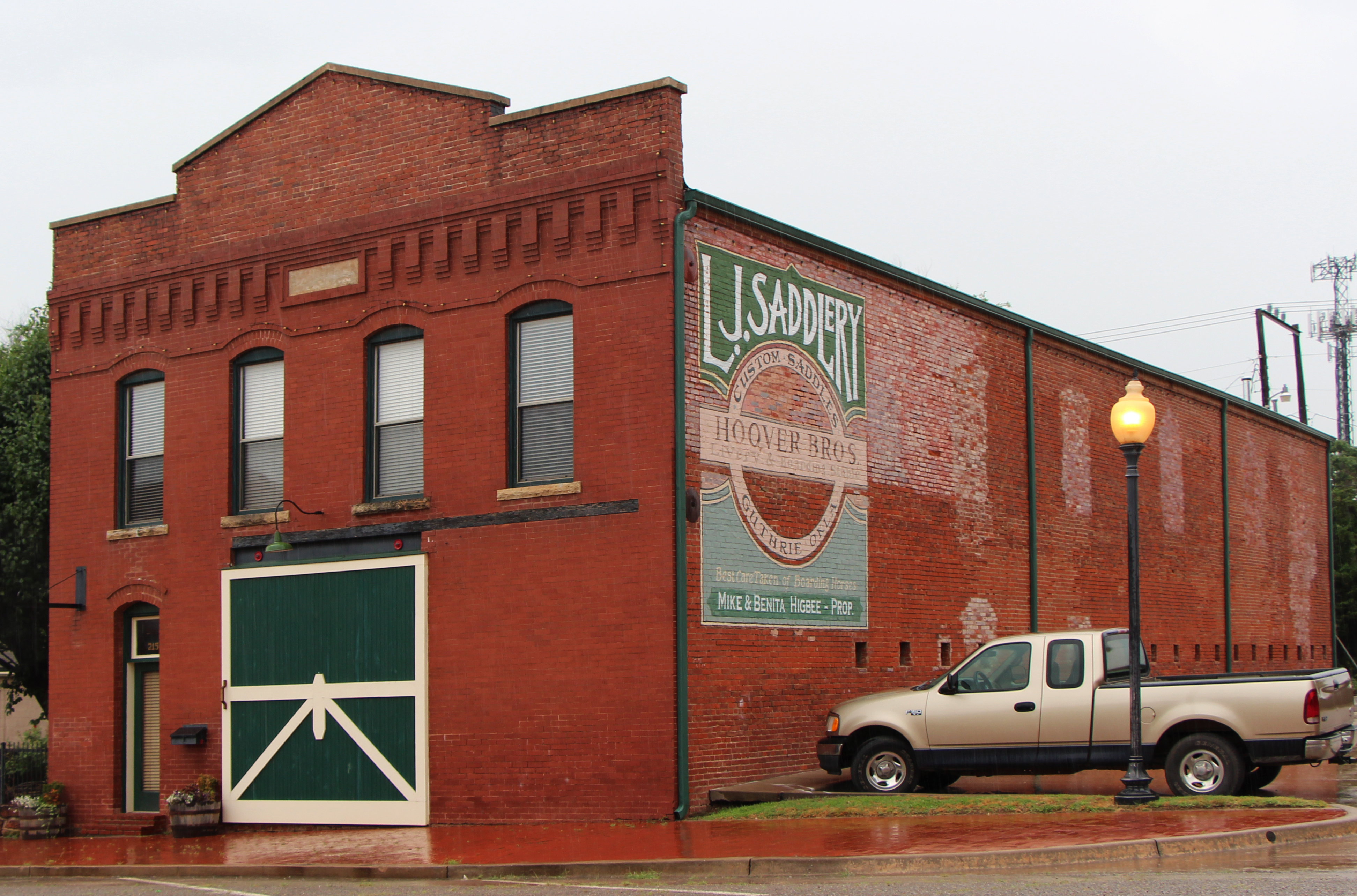 Baxter and Cammack's Livery Stable, Guthrie, Oklahoma